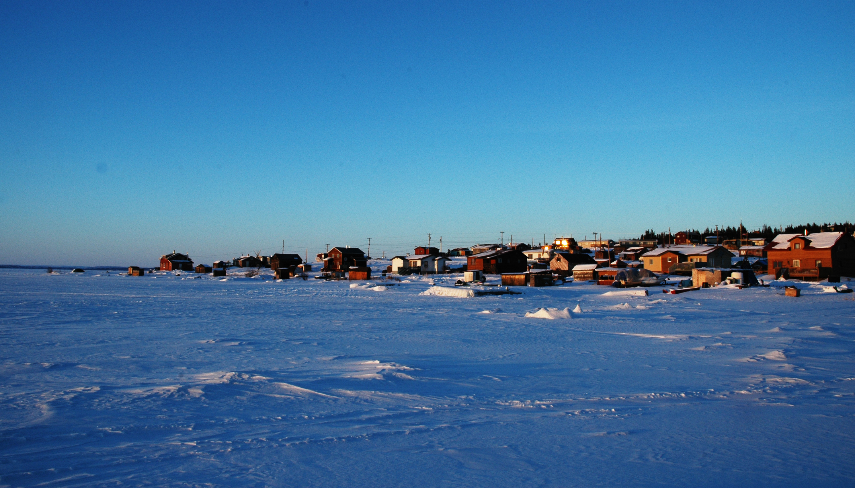 Lutselk'e, Northwest Territories, Canada